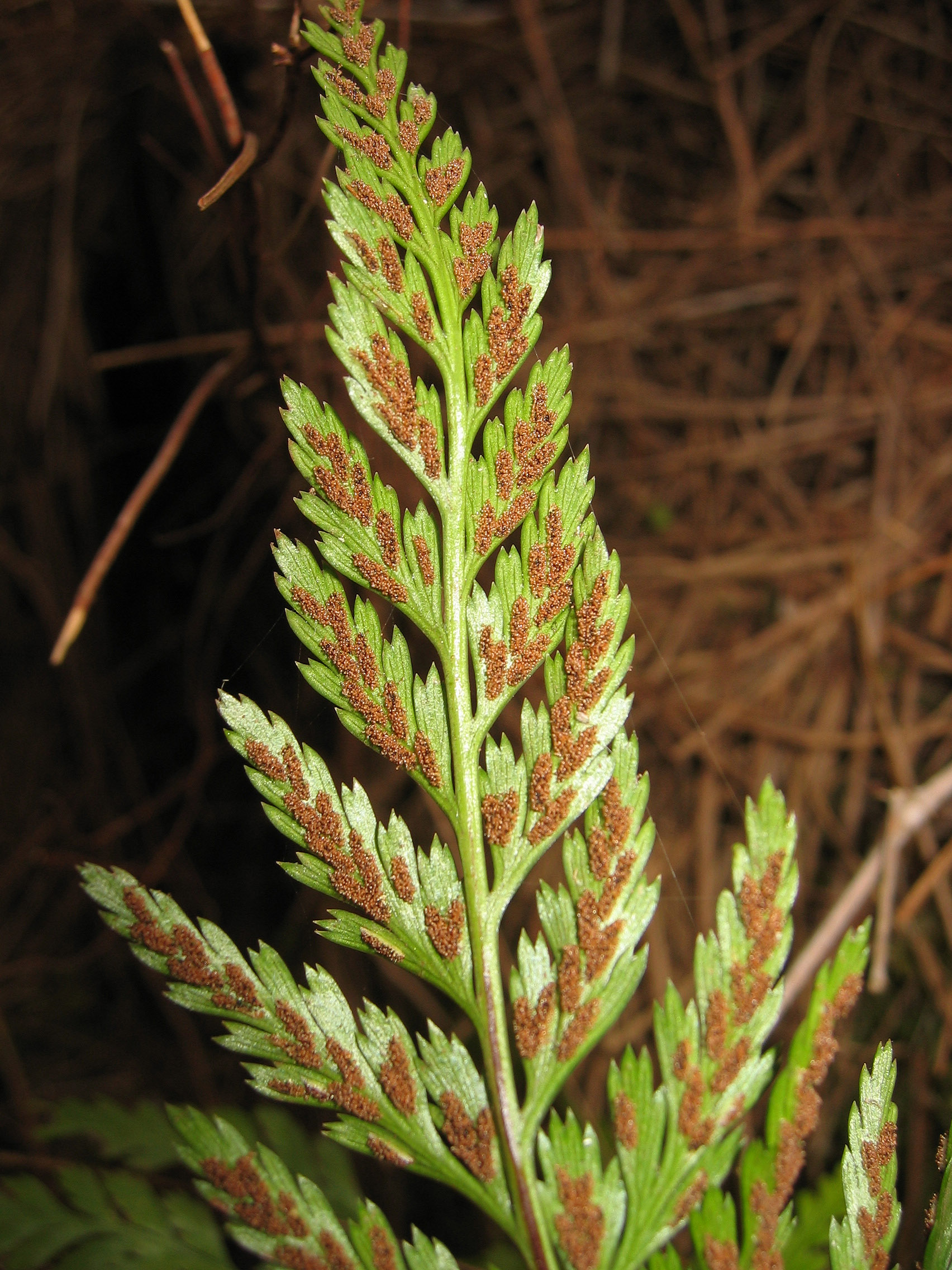 Sori of Asplenium onopteris, Near Refugio del Pilar, La Palma, Spain